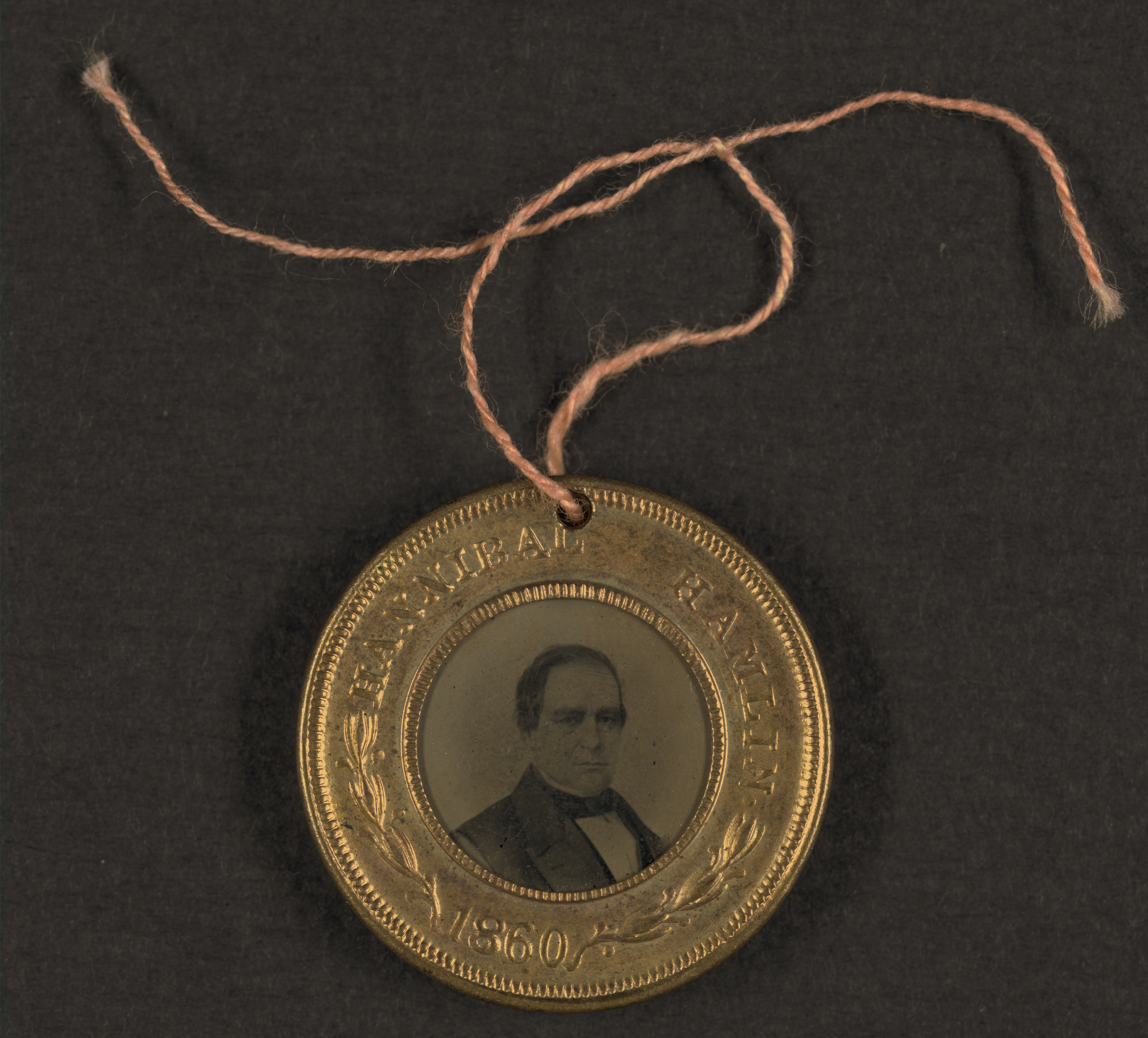 Campaign button for Hannibal Hamlin, 1860. Portrait appears in tintype. Hannibal Hamlin was vice presidential running mate to Abraham Lincoln, whose portrait appears on the other side of the button. One of the earliest examples of photographic images on political buttons.